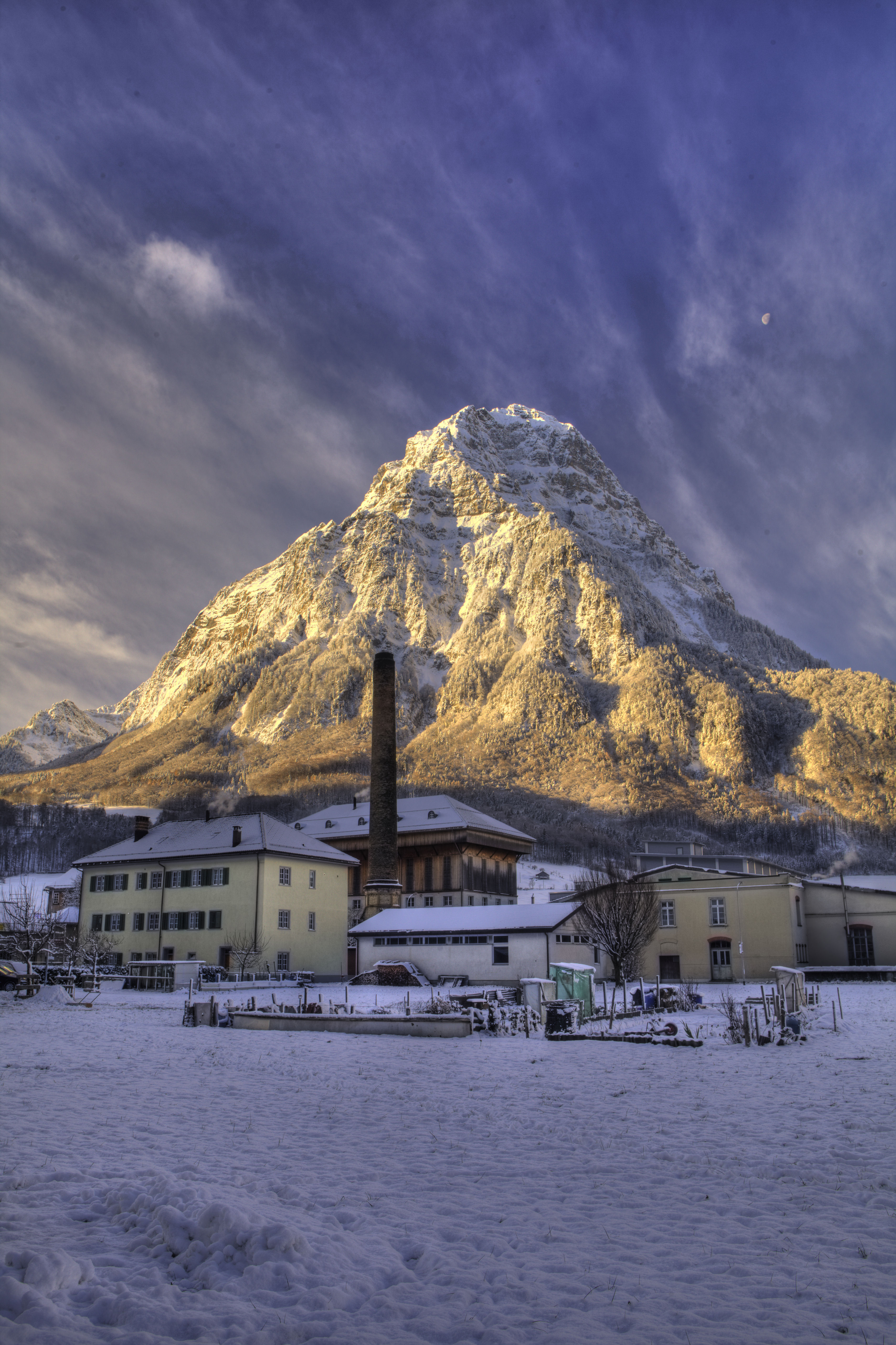 Photo Credits: Hans Bühler, Netstal